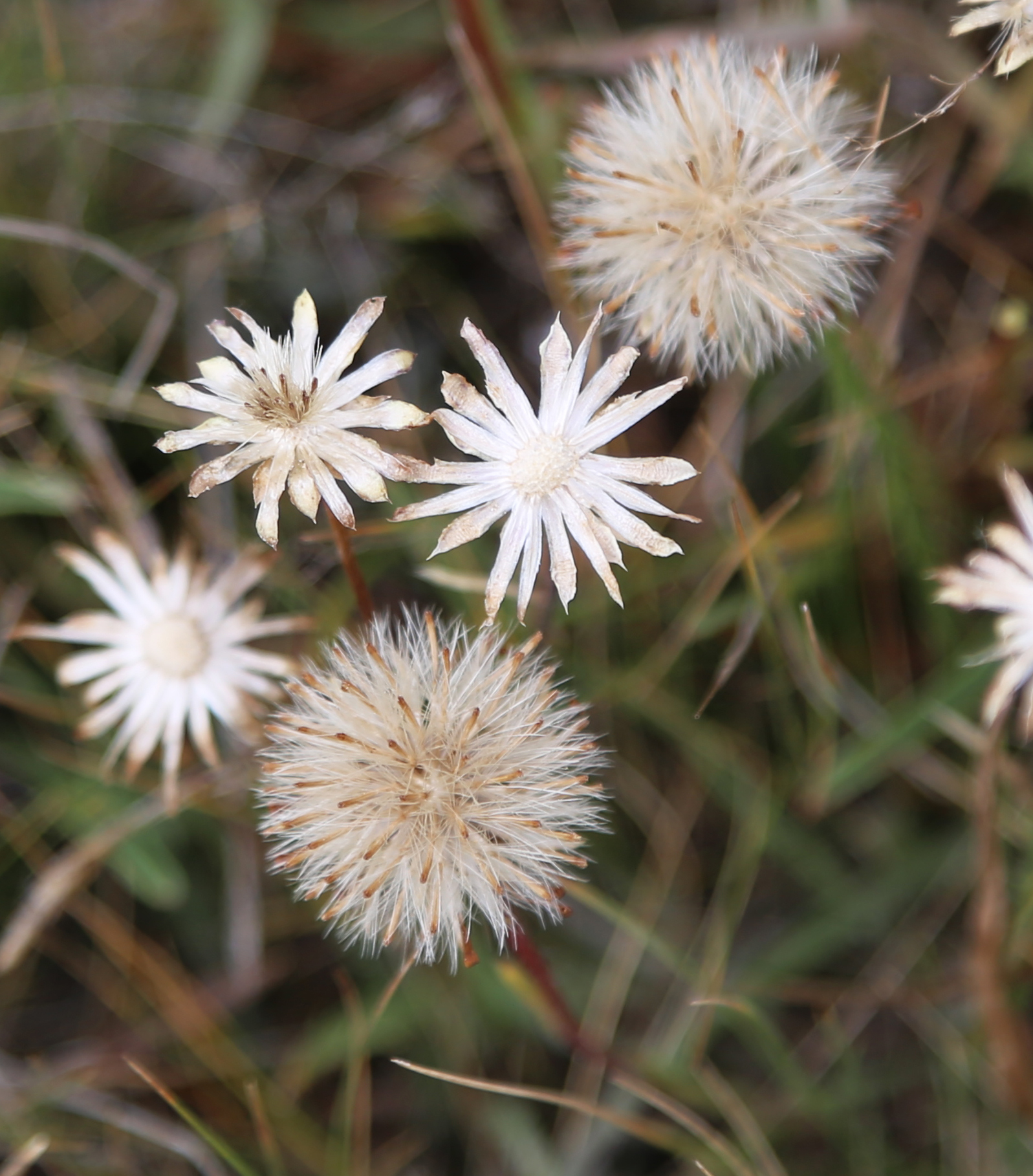 Golden aster (Pyrrocoma apargioides) seedheads and white stars of bracts. At 10,500 ft (3,200 m) along trail into Little lakes Valley, John Muir Wilderness, Sierra Nevada USA.